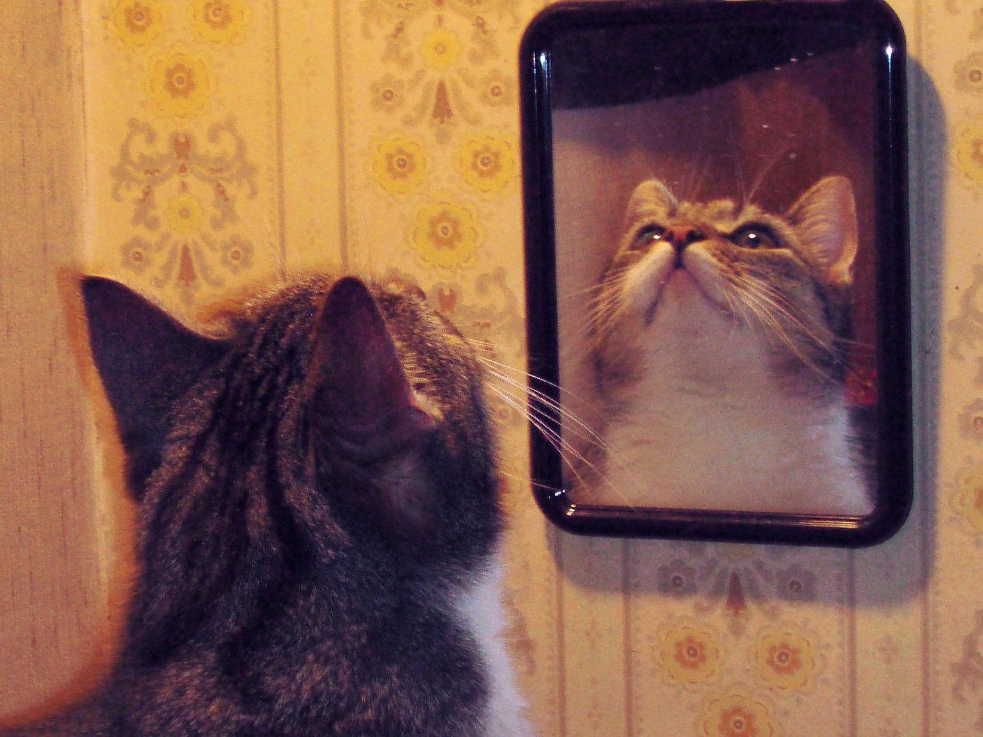 tabby cat